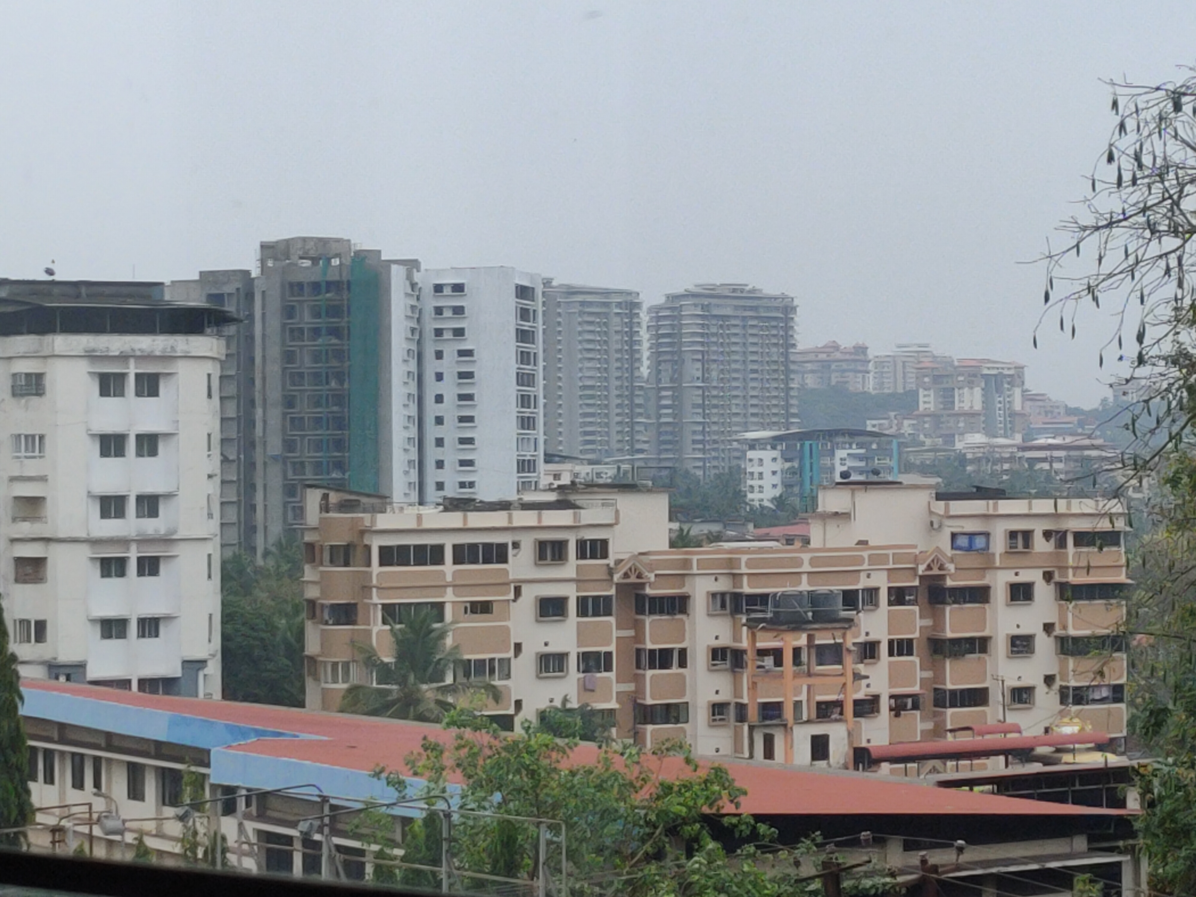 Bejai 2